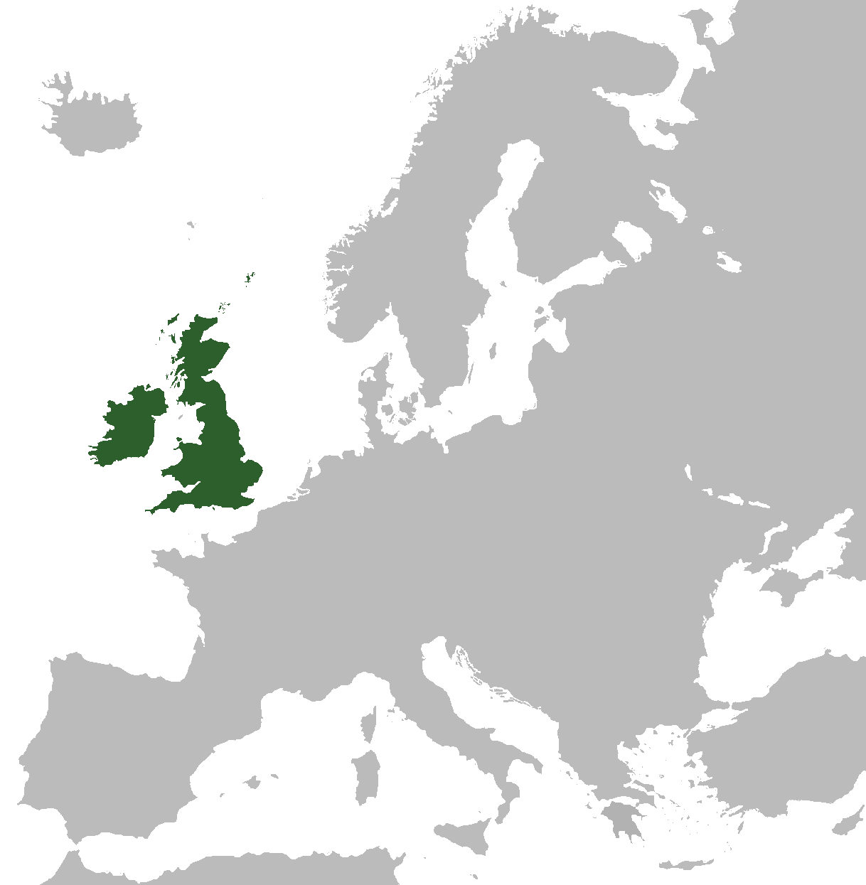 A map highlighting the (former) United Kingdom of Great Britain and Ireland within Europe.